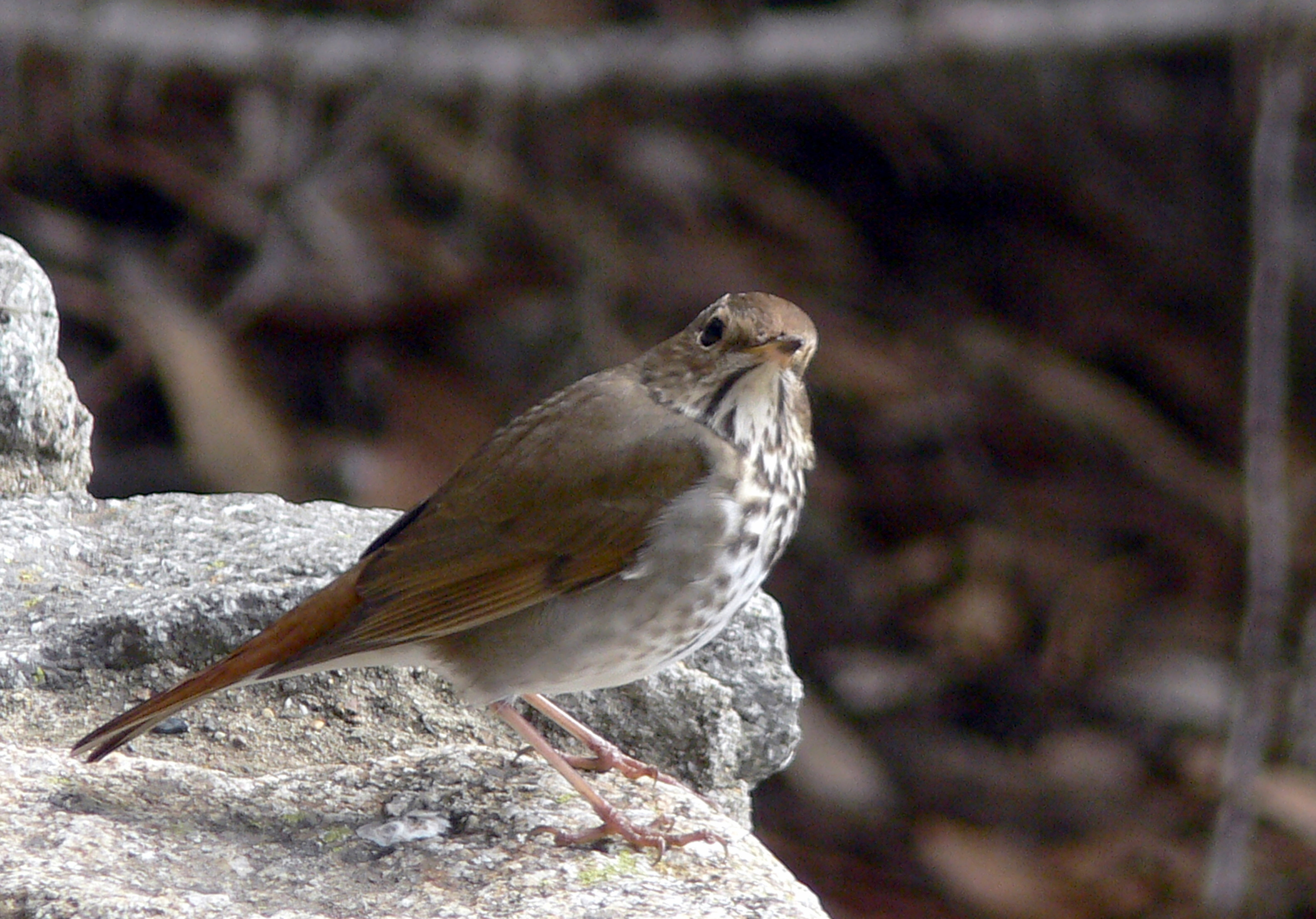 Catharus guttatus Chocolate from the front and more reddish from the back view.